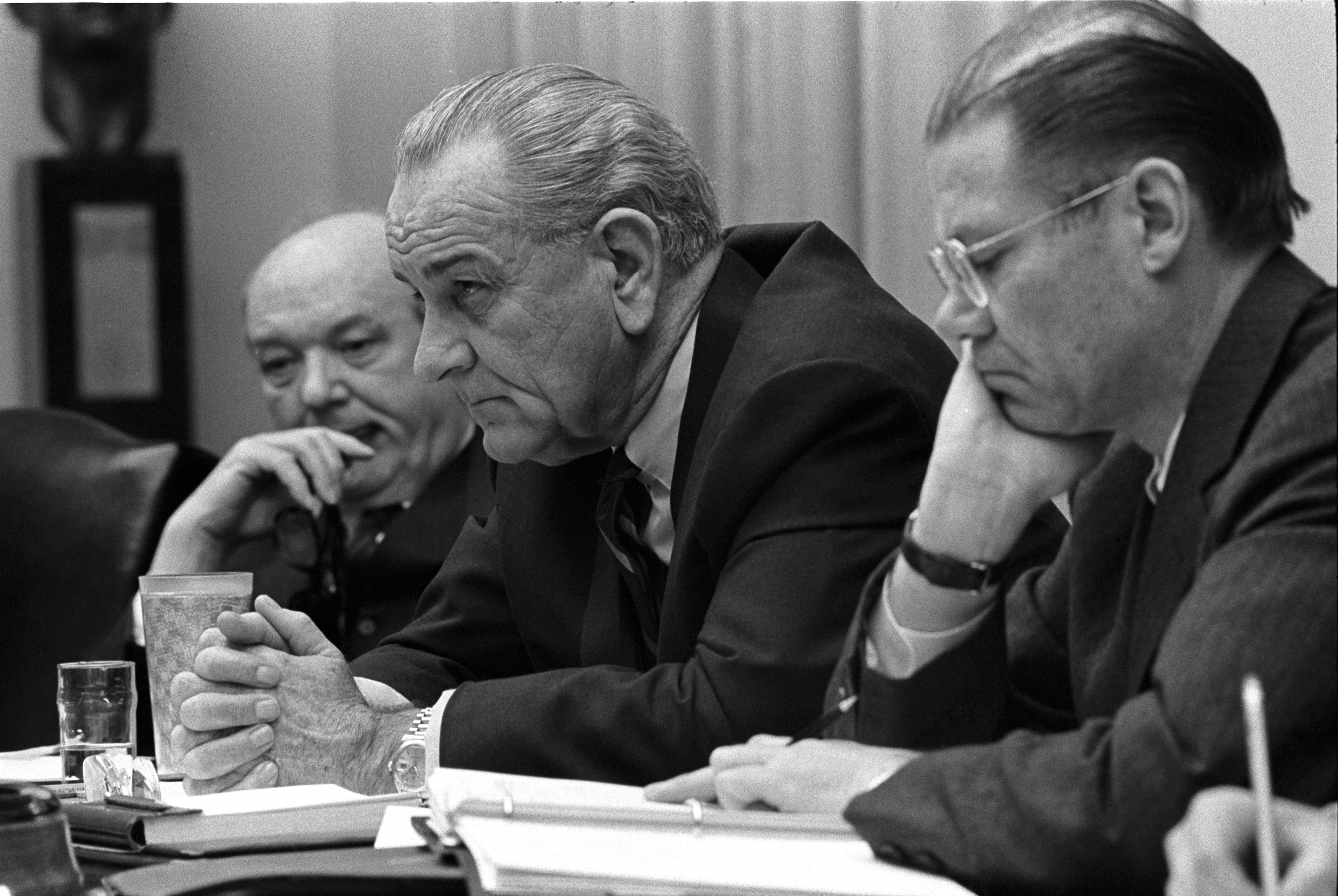 Secretary of State Dean Rusk, President Lyndon B. Johnson, and Secretary of Defense Robert McNamara at a meeting in the Cabinet Room of the White House.